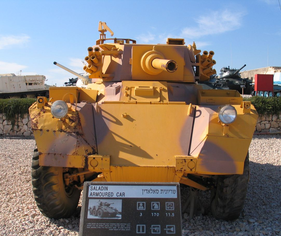 Description: Alvis FV 601 Saladin armored car in Yad la-Shiryon Museum, Israel. 2005. Source: Photo by me, User:Bukvoed.